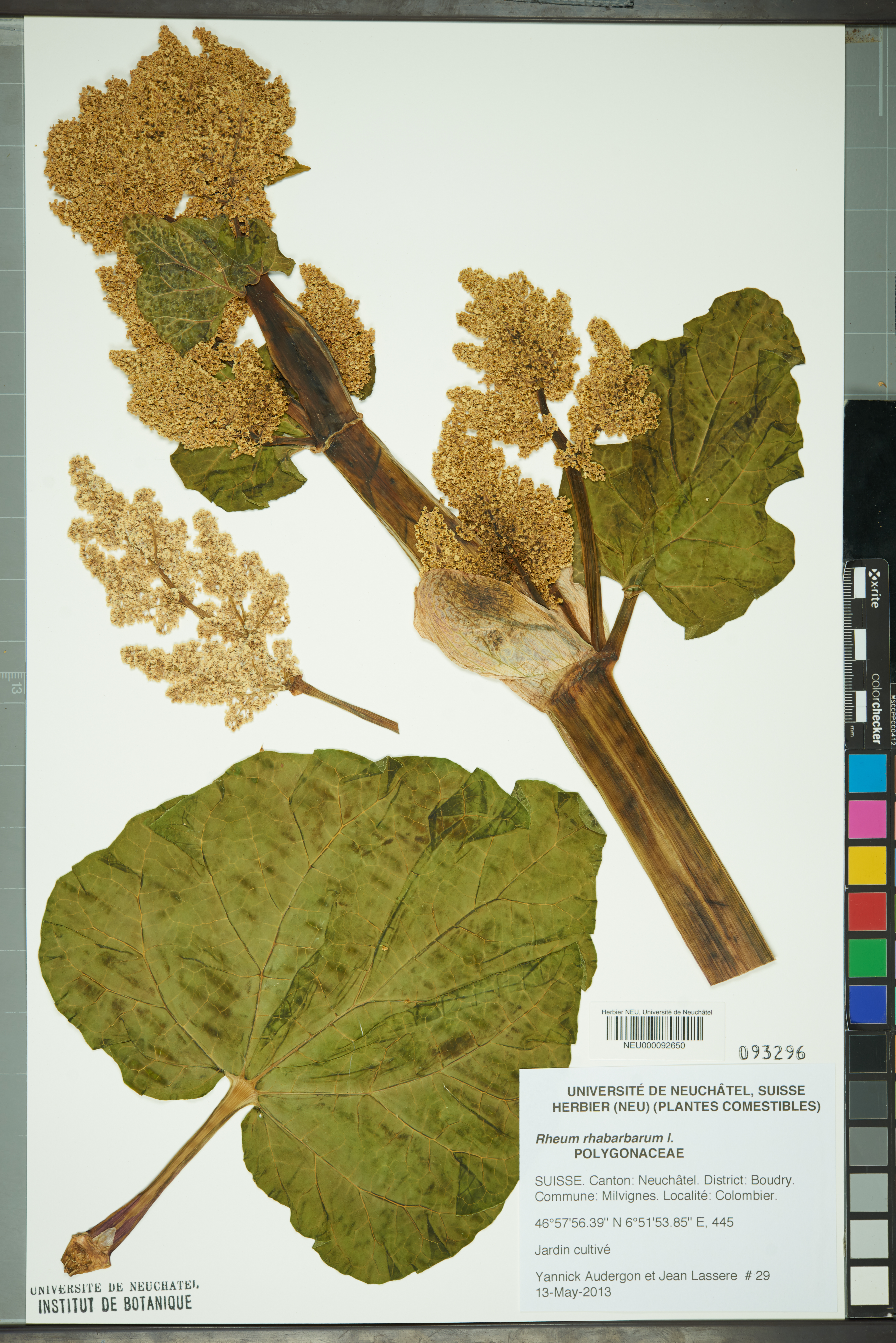 Dried pressed specimen of Rheum rhabarbarum